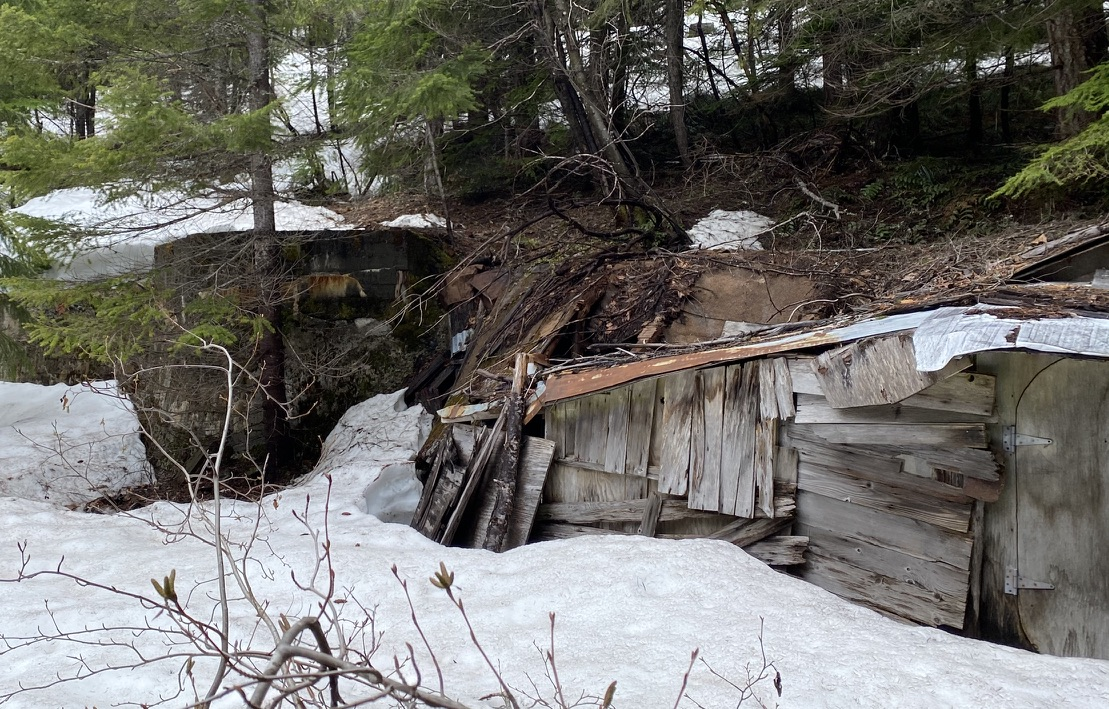 The foundation of the Martin Ski Dome, aka the Husky Chalet as of May 2020